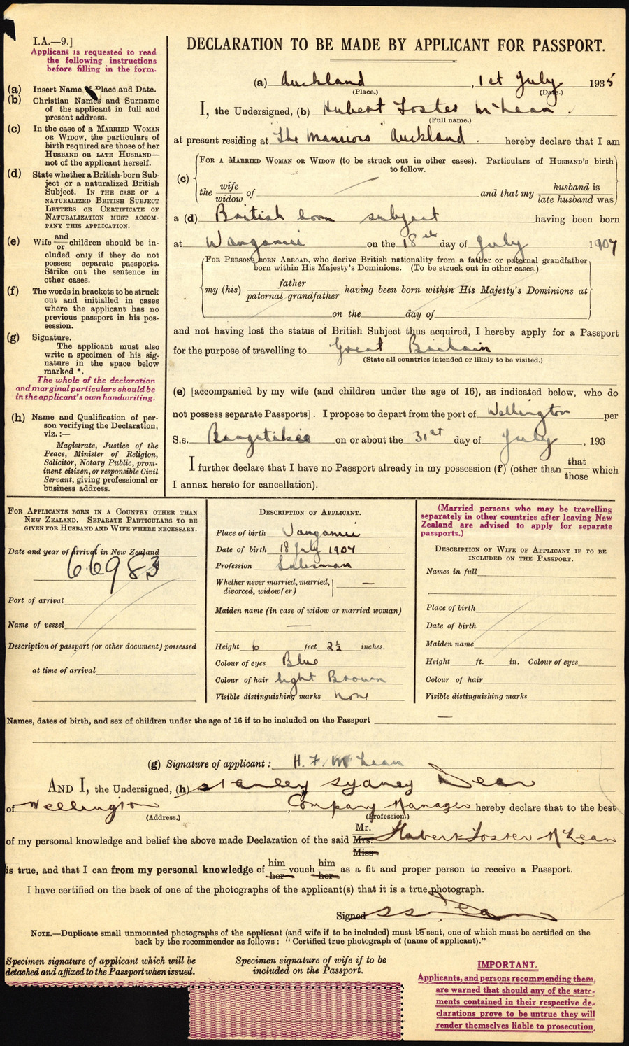 Archives New Zealand Reference: ACGO 8333 IA1 1350 / 15/11/59182